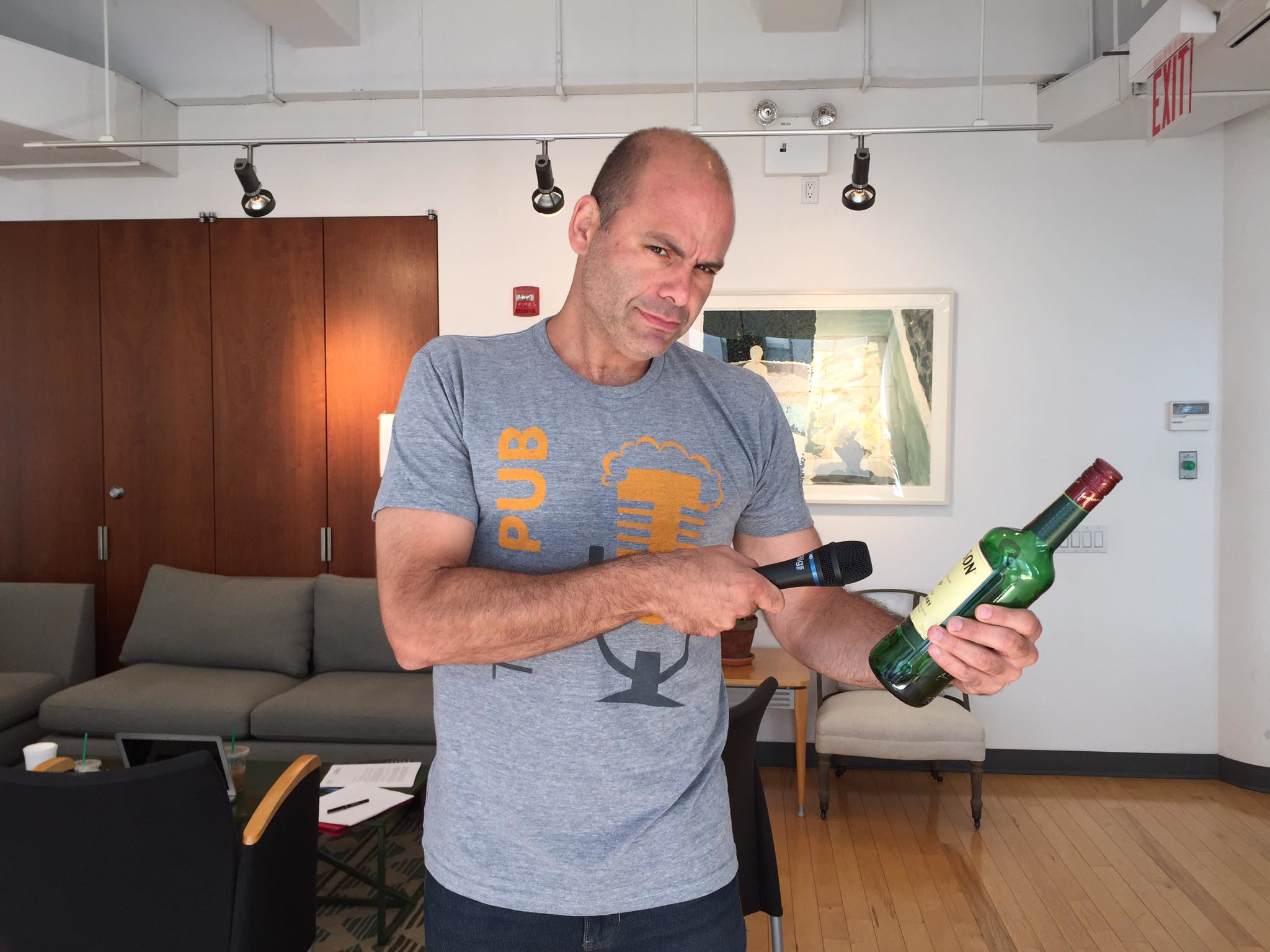 Mike Pesca is host of Slate's The Gist podcast.